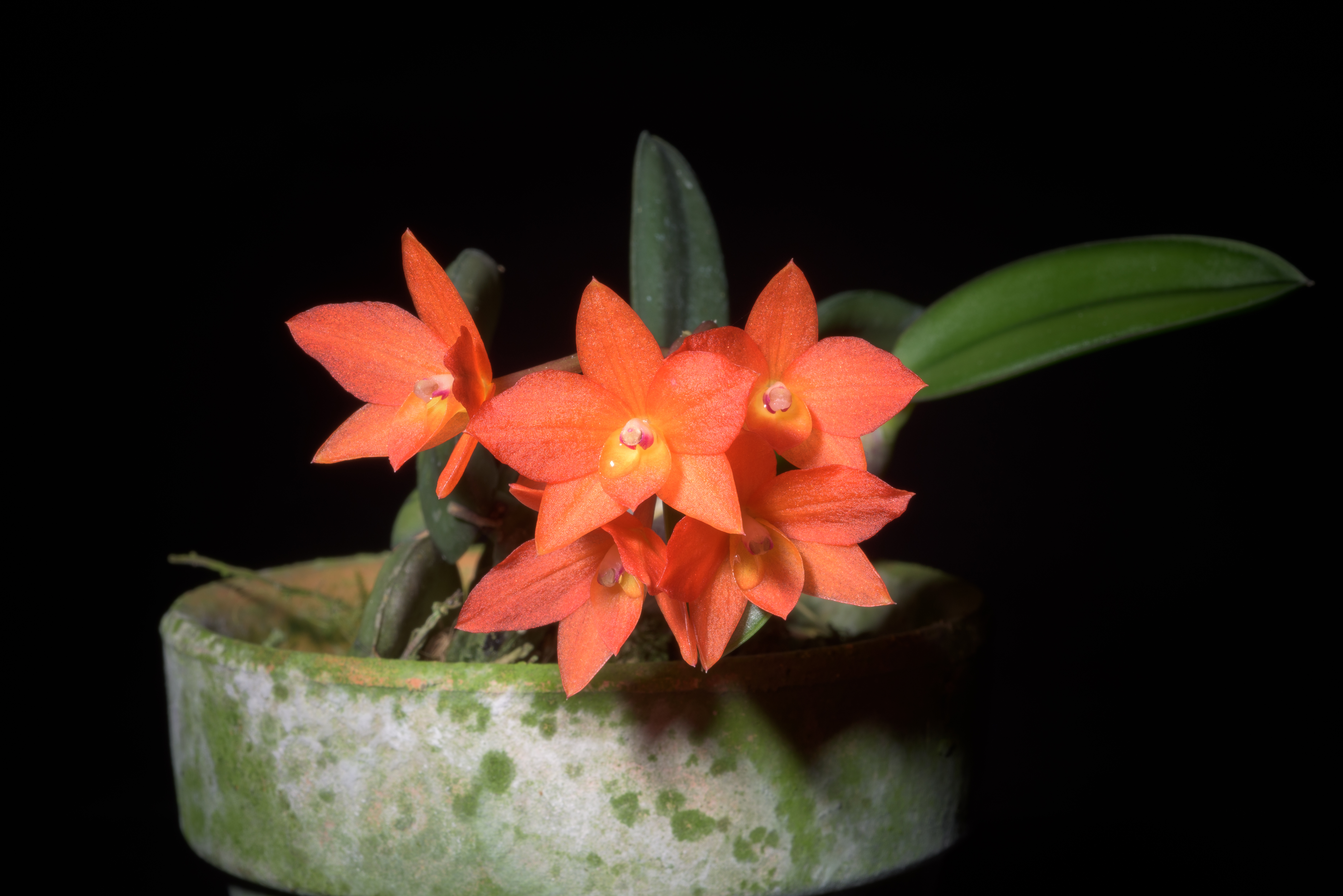 Cattleya cernua (wild Provincia de Corrientes, Argentina) (Lindl.) Van den Berg, Neodiversity 5: 13 (2010)